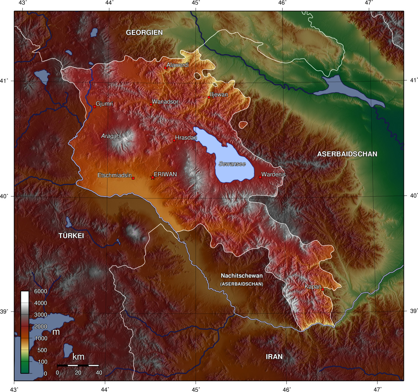 Topographic map of Armenia